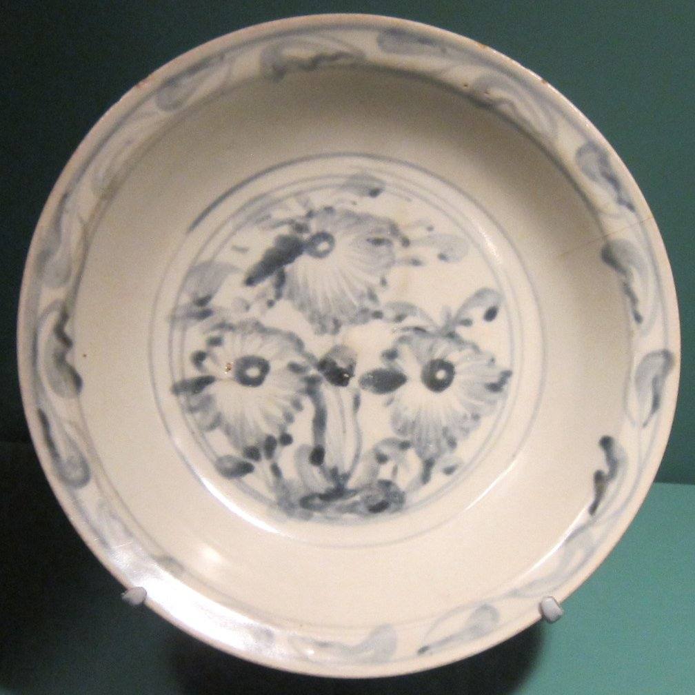 Vietnamese or Chinese bowl made for export and collected in the Philippines, 15th century, porcelain with underglaze cobalt blue floral design, Honolulu Museum of Art, accession 12715.1